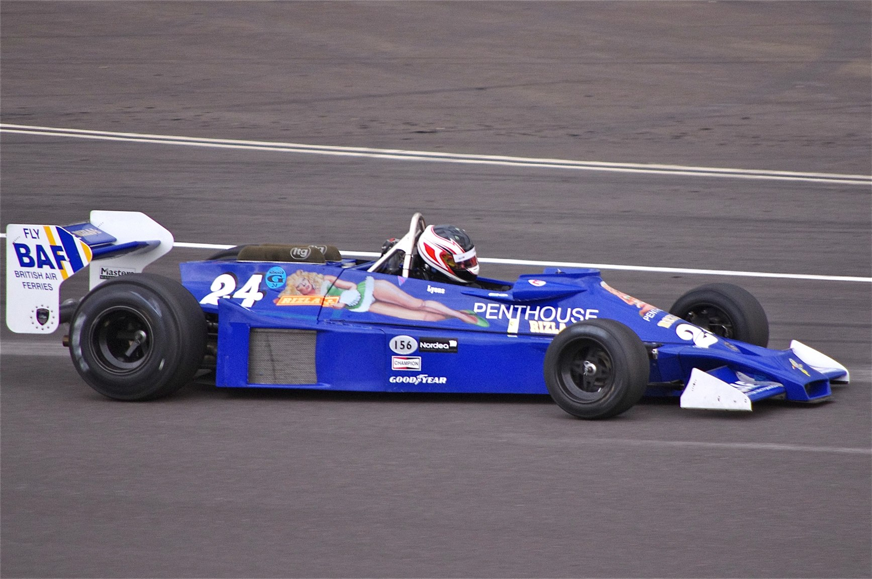 Silverstone Classic 2011